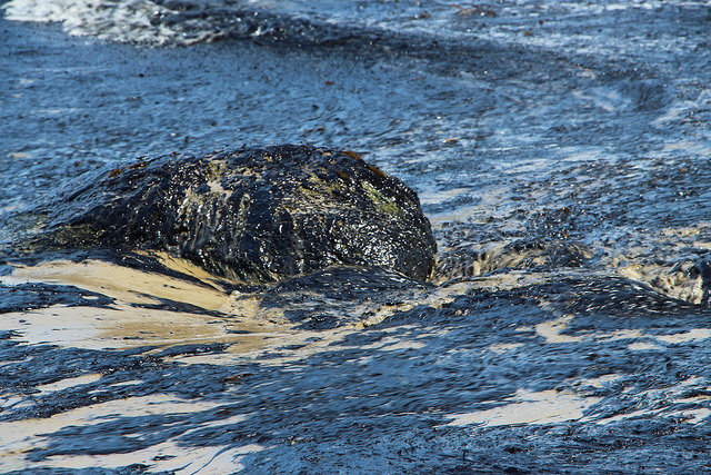 Oil from the Refugio Oil Spill, California.